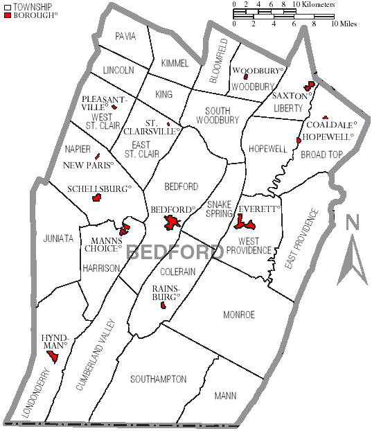 Map of Bedford County, Pennsylvania, United States with township and municipal boundaries is taken from US Census website [1] and modified by User:Ruhrfisch in April 2006. My modifications licensed under the GNU Free Documentation License. Source: US Census website [2]